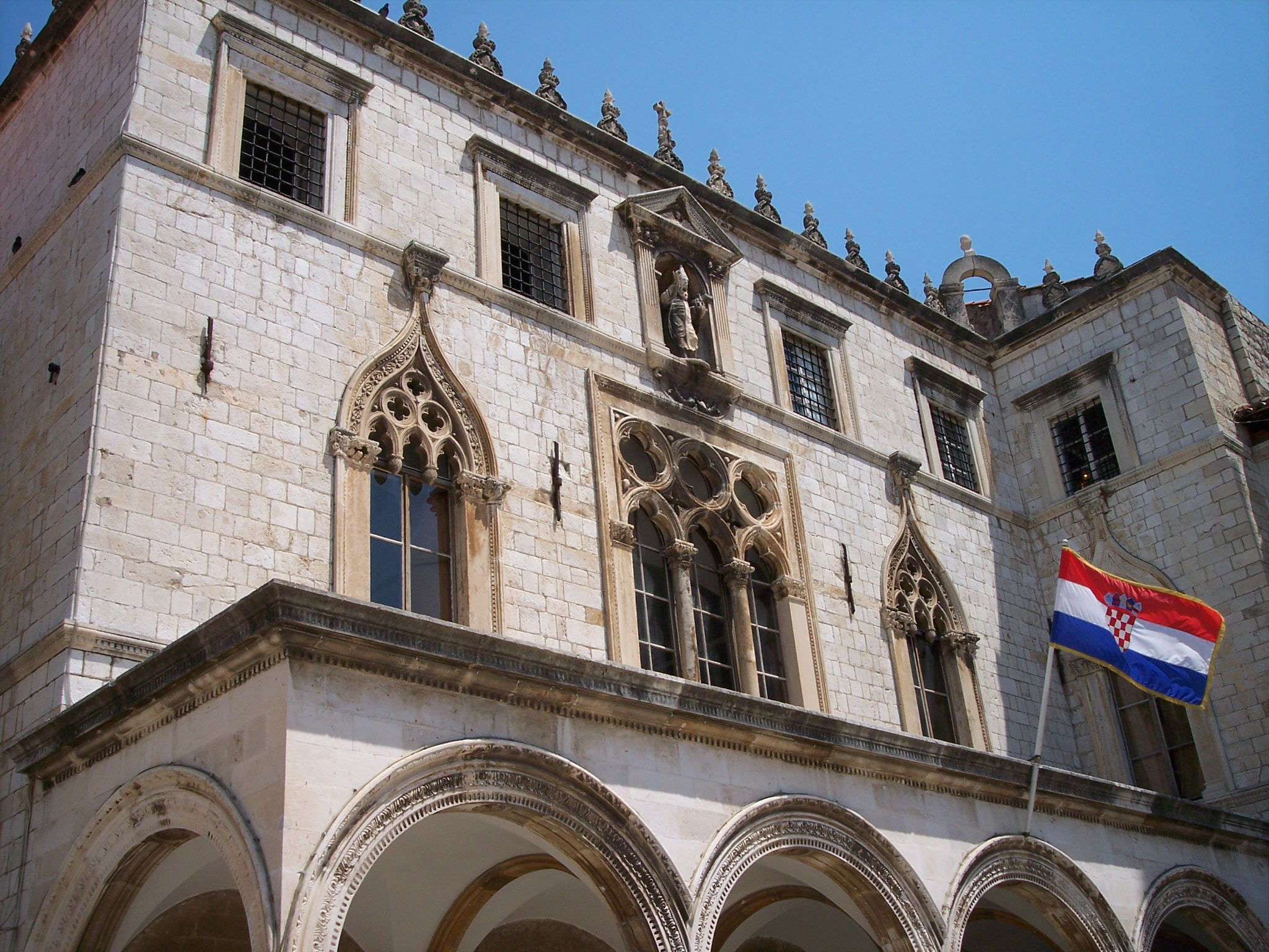 Sponza's palace (or Rector's palace) in Dubrovnik (Croatia)